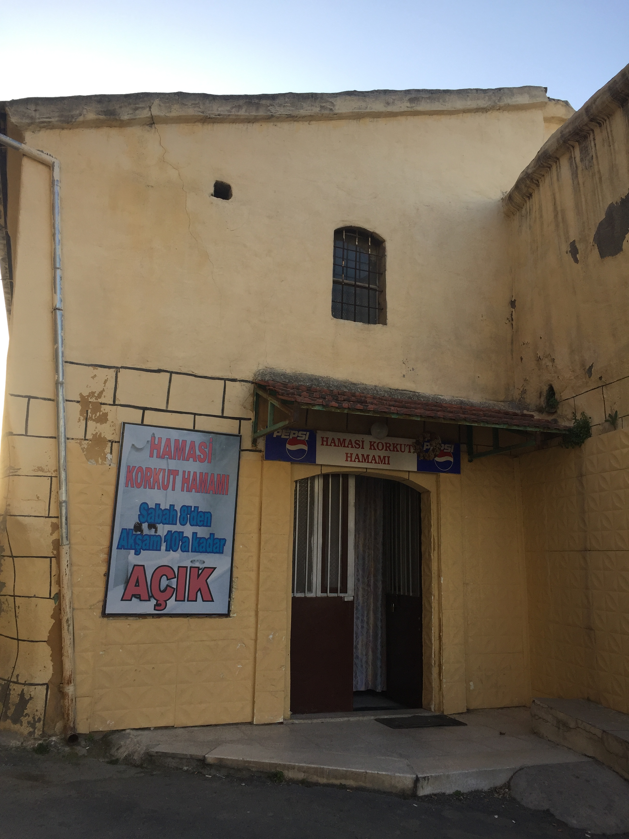 Korkut Hamamı, a Turkish bath in North Nicosia